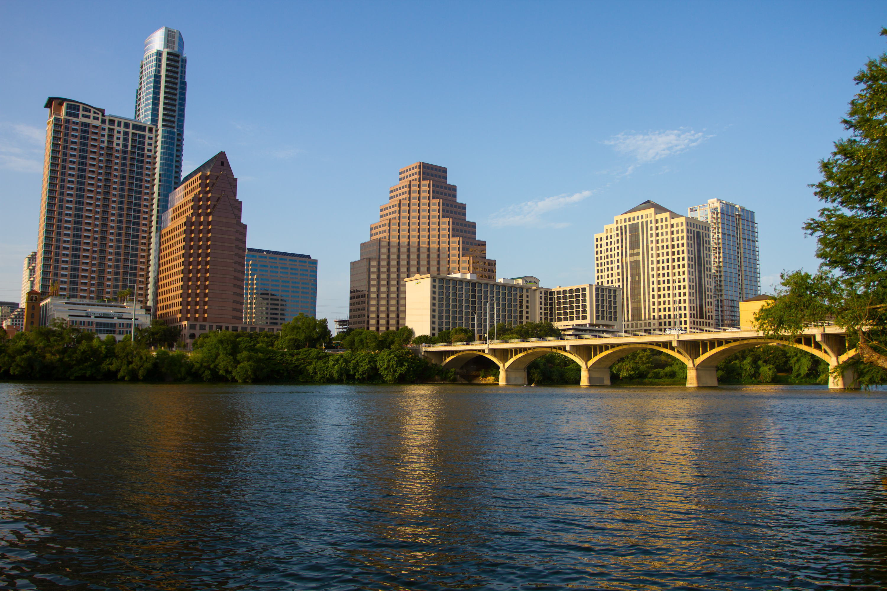 Downtown Austin from the Hyatt Regency across Ladybird Lake. Licensed with Creative Commons.